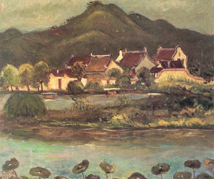 Old Houses of Hangzhou, China/ Chen Cheng-po/ 1938/ Canvas/ Oil Painting/ Collection of Chen's Family Members